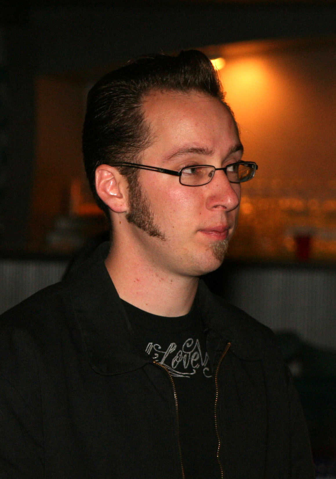 Andy Husted, former member of the band MxPx. Picture taken September 16th, 2006 at a MxPx concert in Bremerton, Washington.